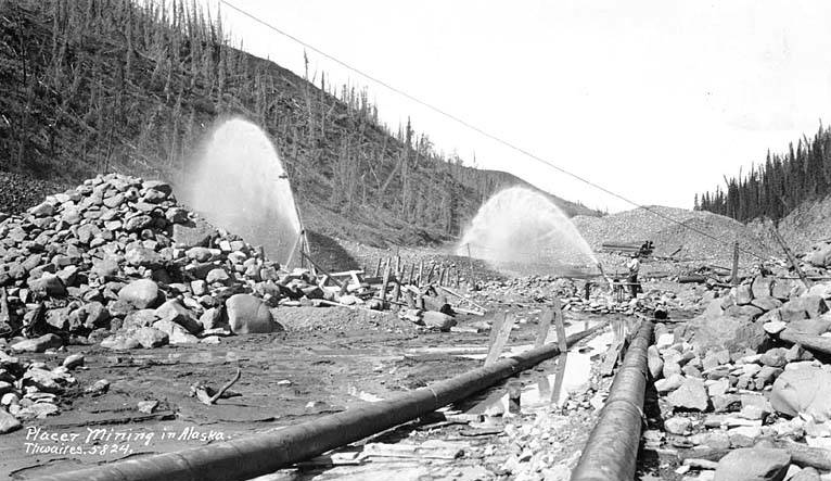 Caption on image: Placer mining in Alaska PH Coll 247.869 Subjects (LCTGM): Gold mining--Alaska; Hydraulic mining--Alaska; Gold mining equipment--Alaska Subjects (LCSH): Placer mining--Alaska--Equipment and supplies